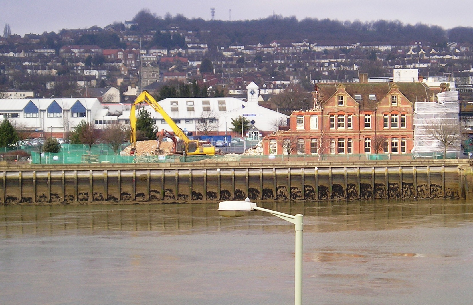 Record of the demolition of the Aveling and Porter offices, in Strood, Rochester, Kent during February 2010. The architect, G E Bond built this and many other public buildings in The Medway Towns including the former Chatham Town Hall, St Andrews Church, the River Medway Conservancy Board Offices, and the now derelict Theatre Royal Chatham.